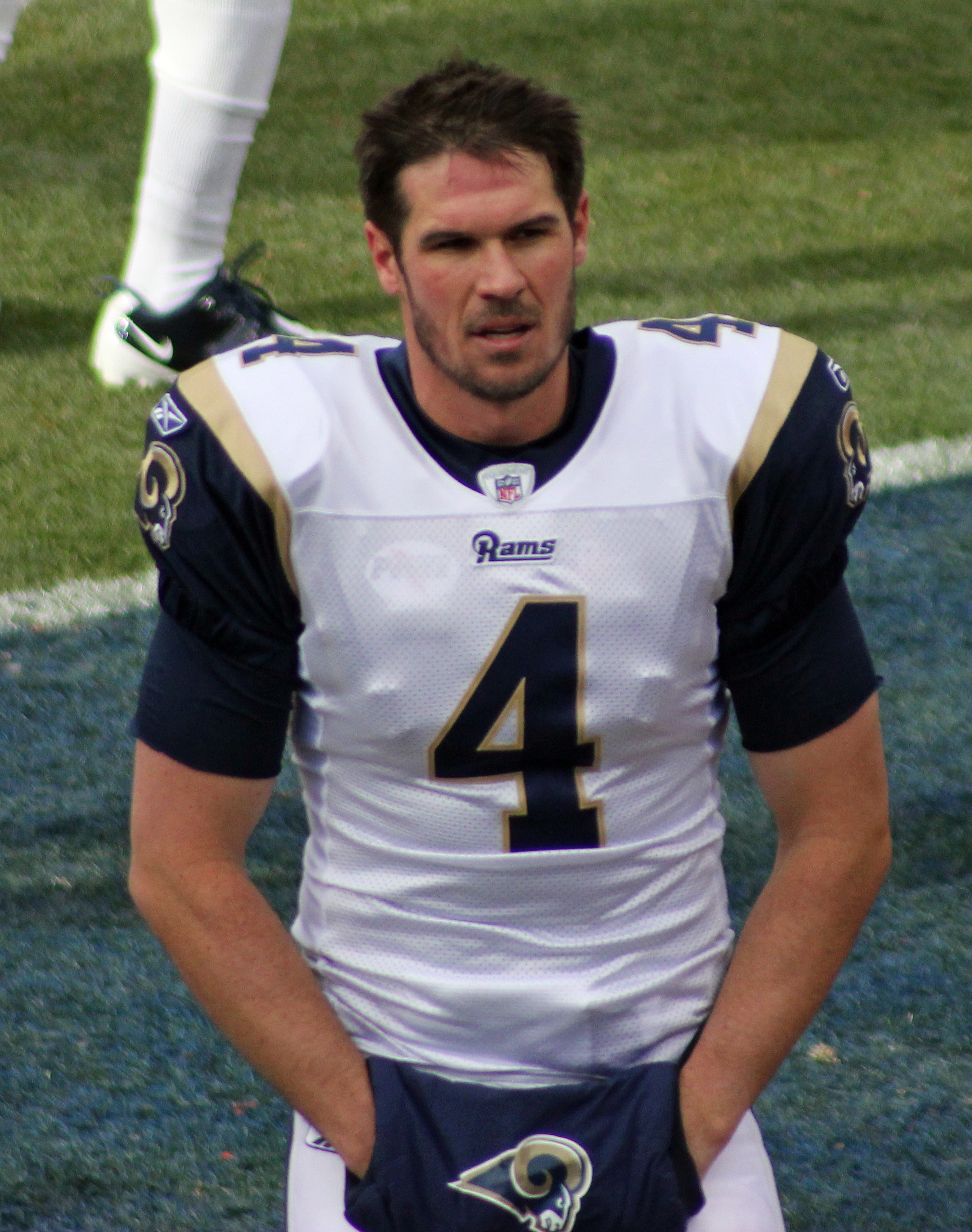 A.J. Feeley, a player on the Saint Louis Rams American football team.